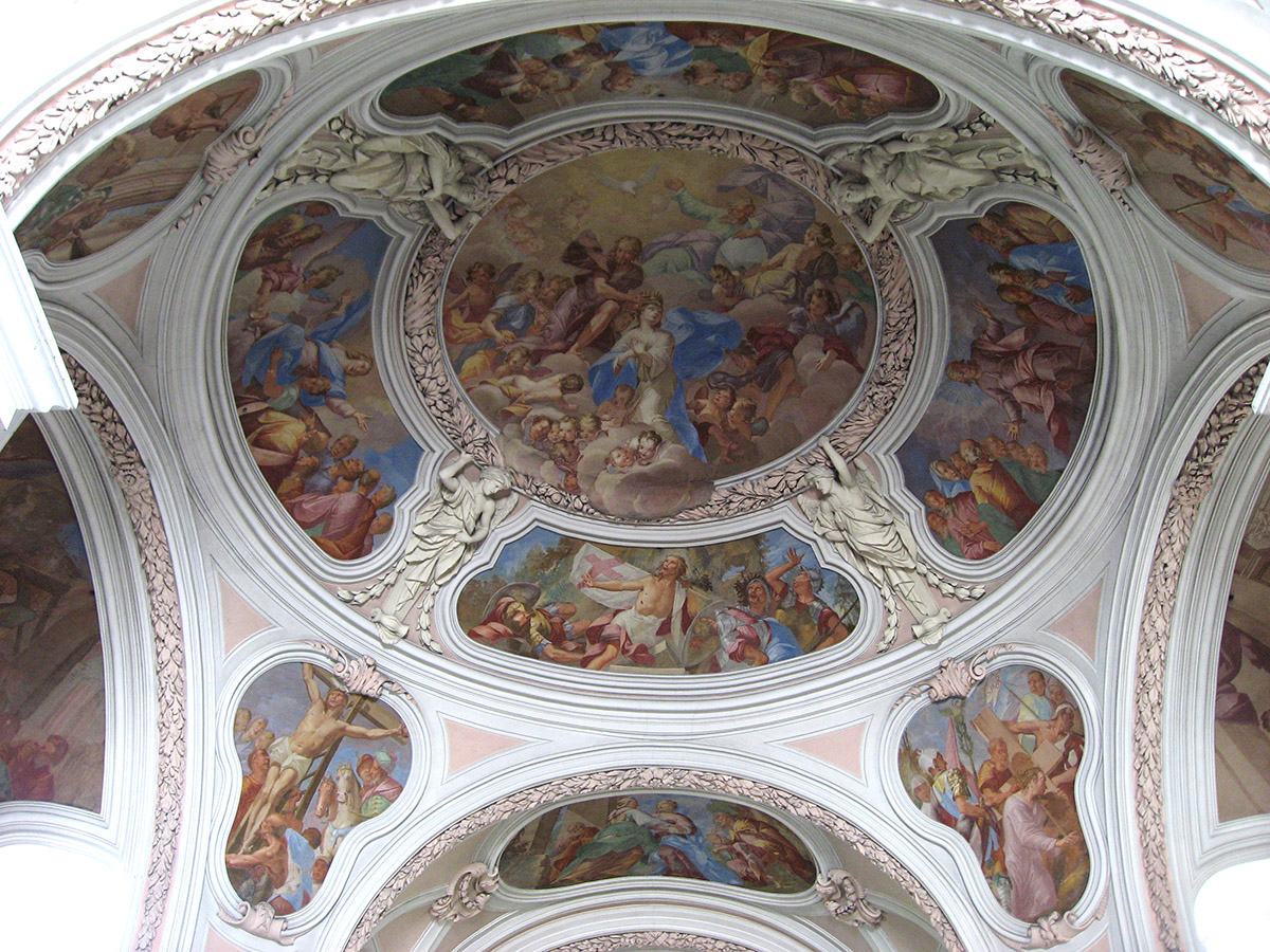 Sights of Vöcklabruck in Upper Austria, here the Dörflkirche, this baroque style churche was built in 1688 by architect Carlo Antonio Carlone, with frescos from the painter Carlo Antonio Bussi Boarisch: Baroke Freskos fum Måla Carlo Antonio Bussi in da Deafikiacha in Feklabruk, Owaesdaraich